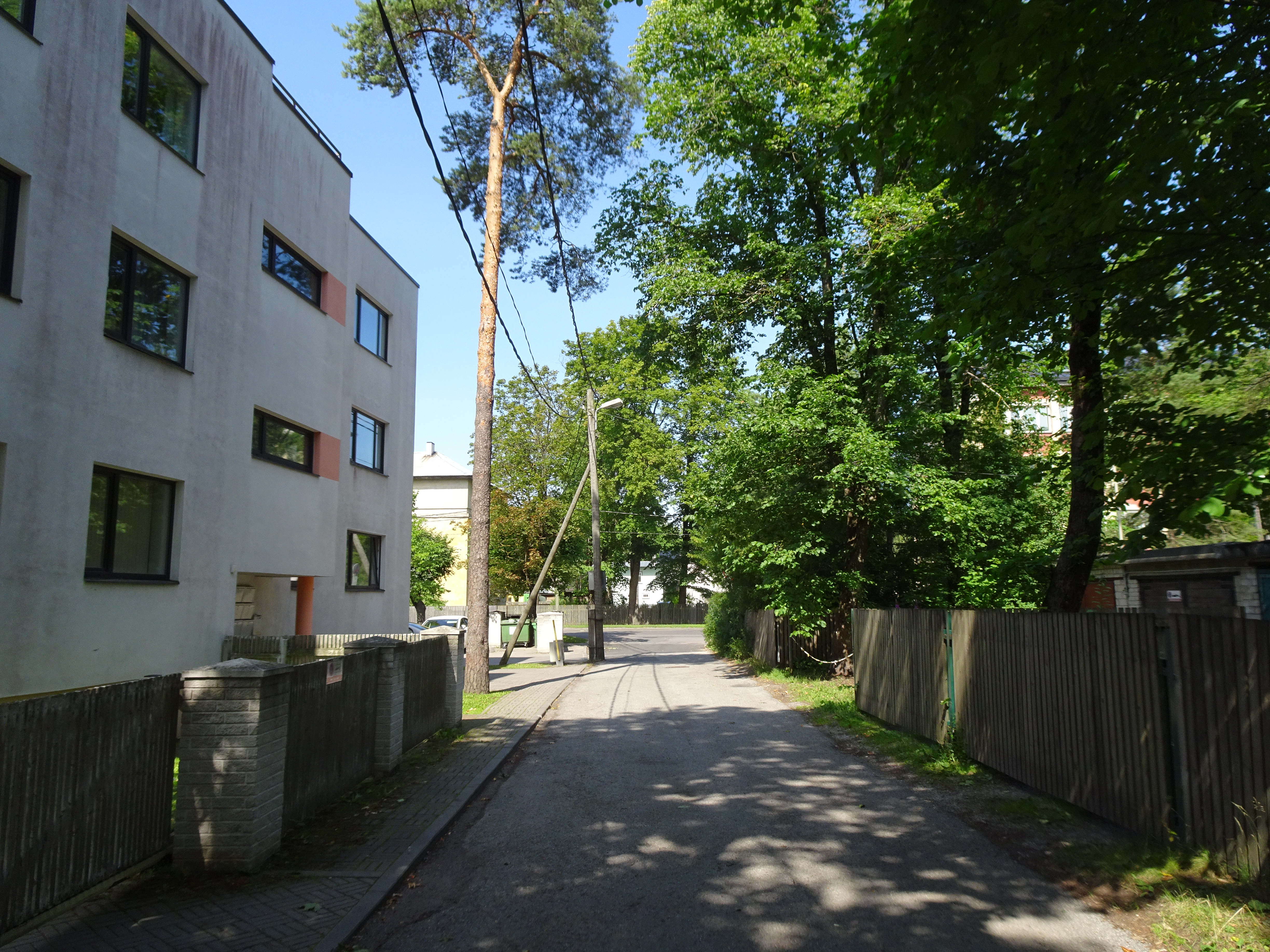 Kuuse Street in Nõmme, Tallinn